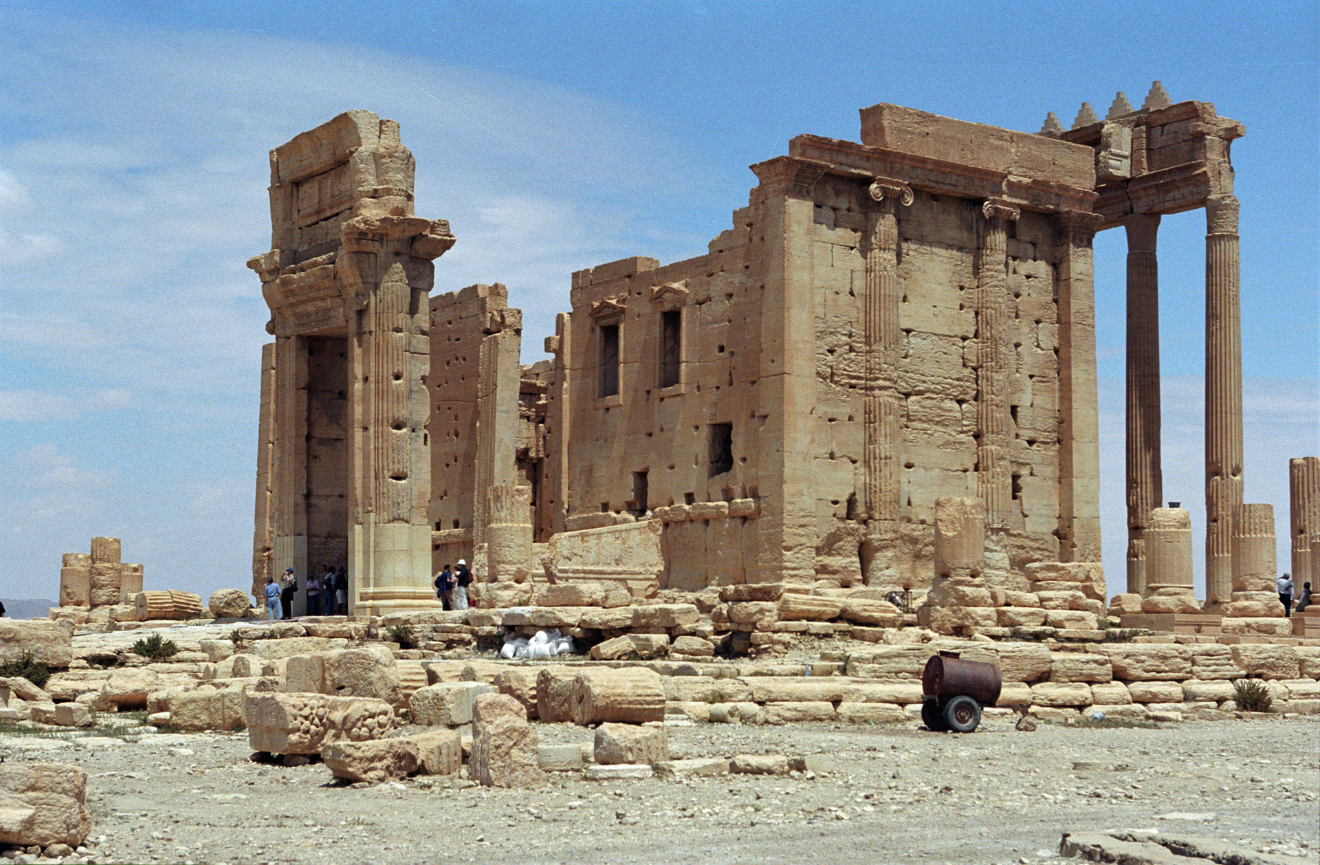 Palmyra, Temple of Baal